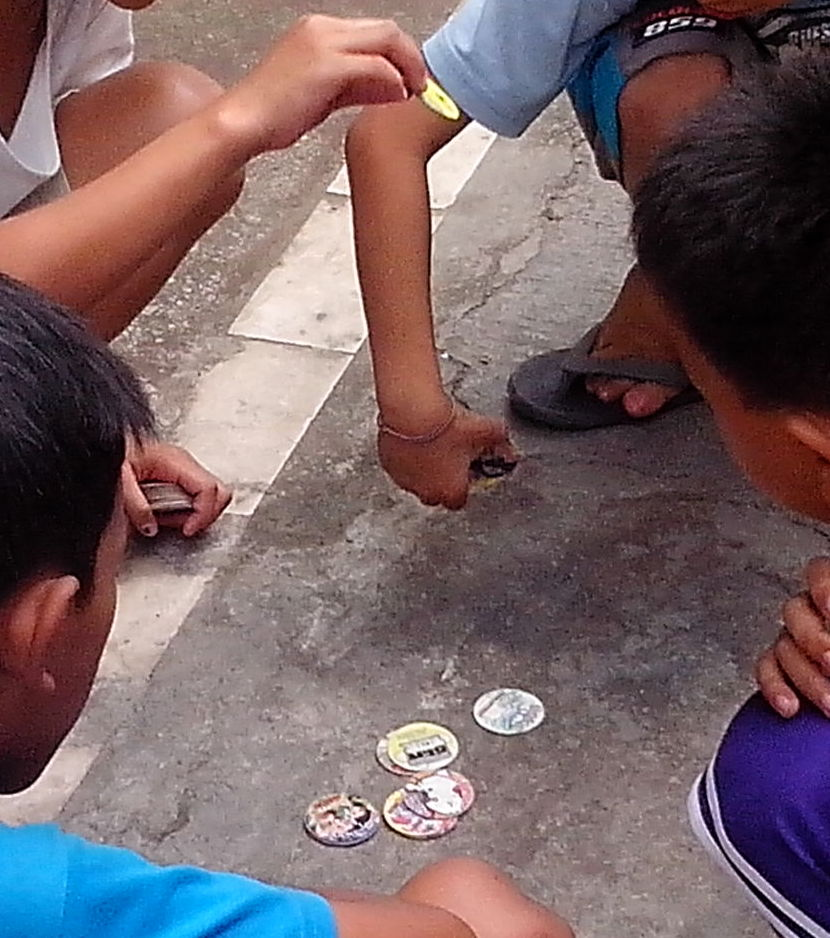 Filipino children playing pogs on the street